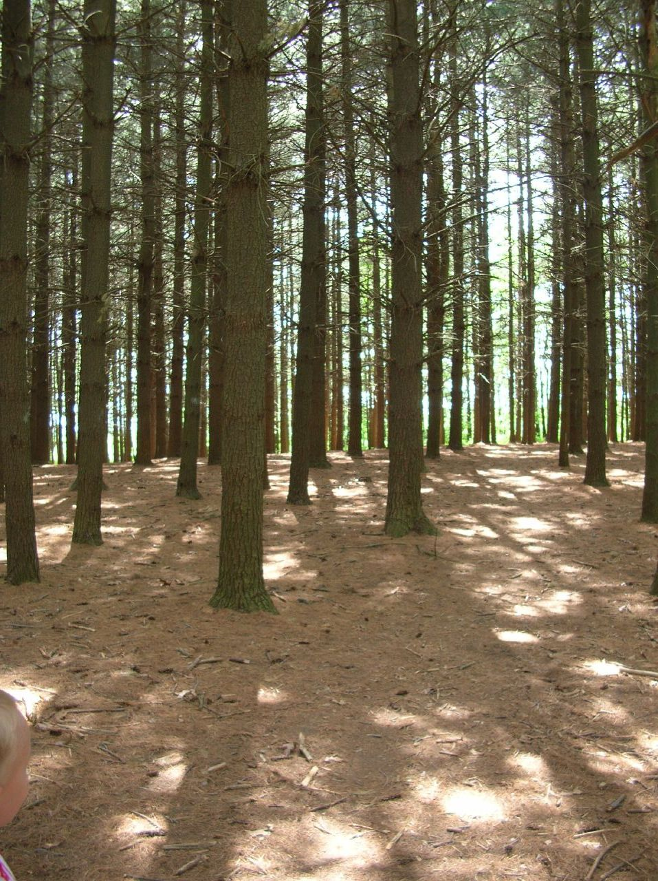 A Pinus strobus forest in the United States.Pine Forest